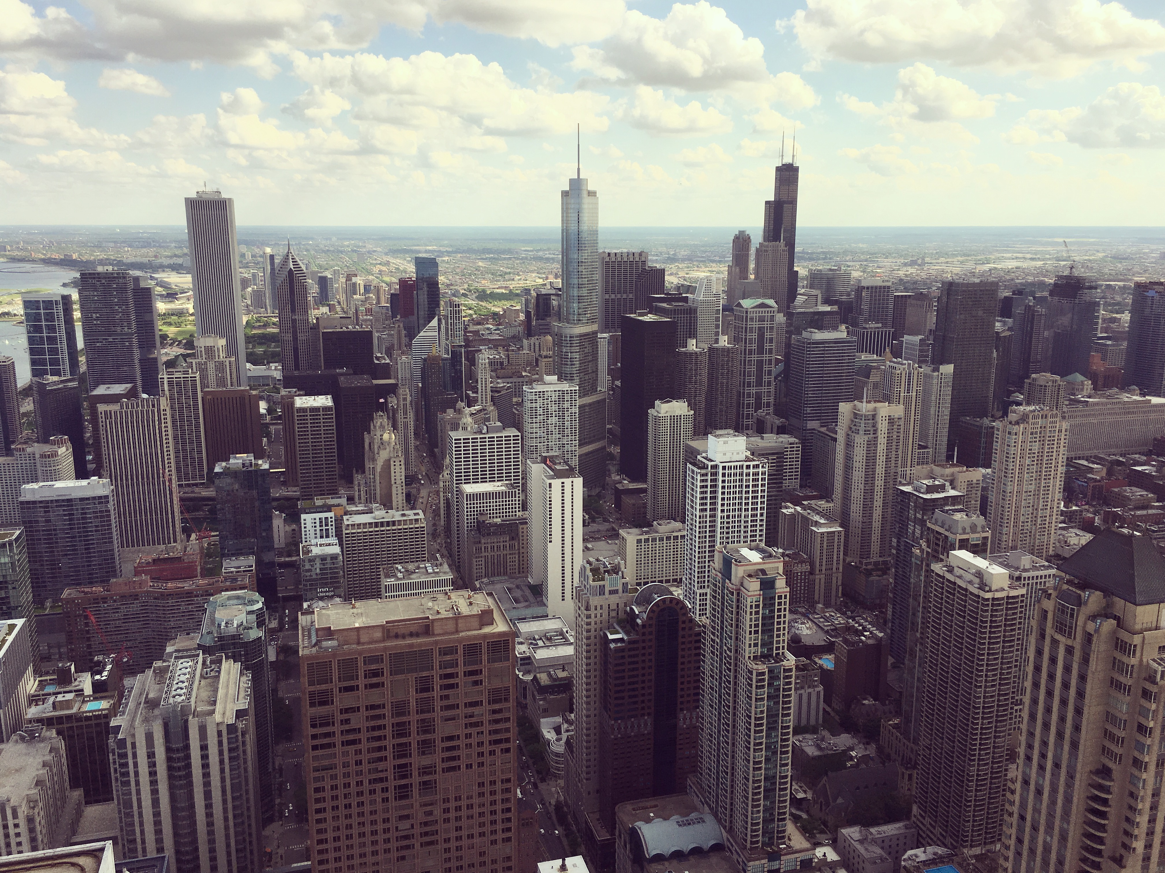 Aerial view of the city of Chicago looking south (from the John Hancock Center Observatory in May 2016).